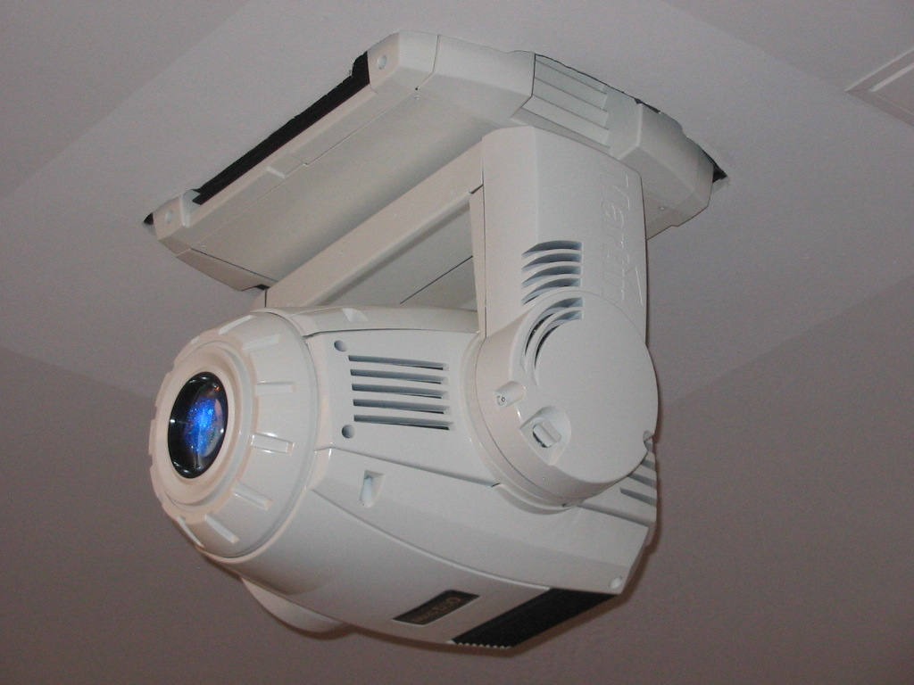 A MAC 550 automated fixture by Martin Light (an automated fixutre manufacturer)